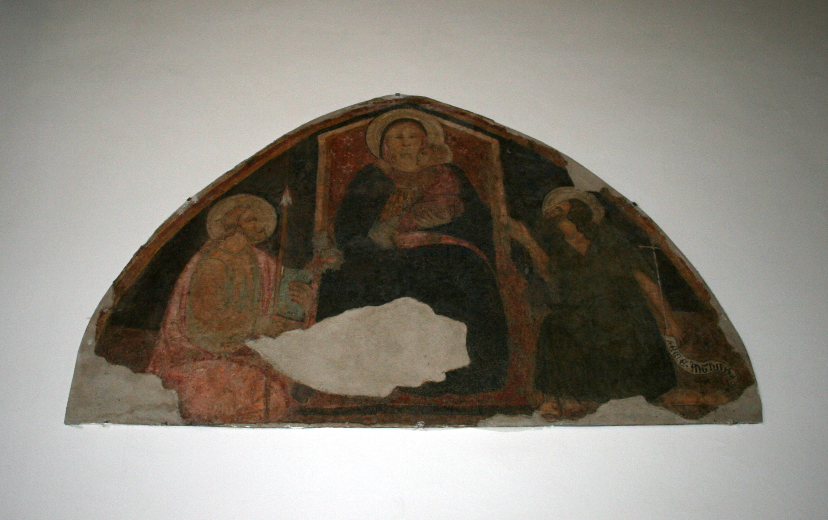 Fresco formerly in Cennano cloister of San Ludovico Convent